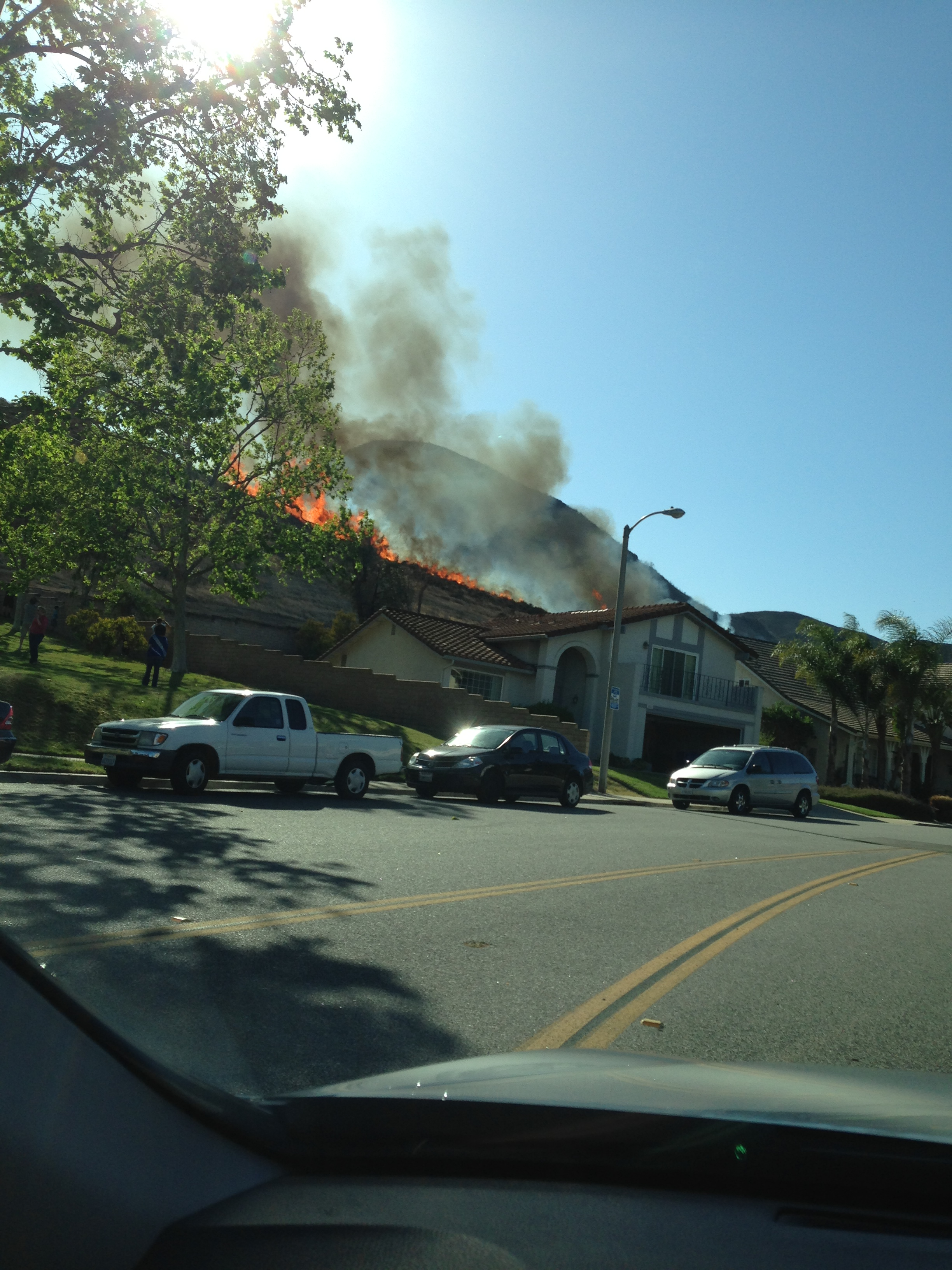 Wild fire near homes.